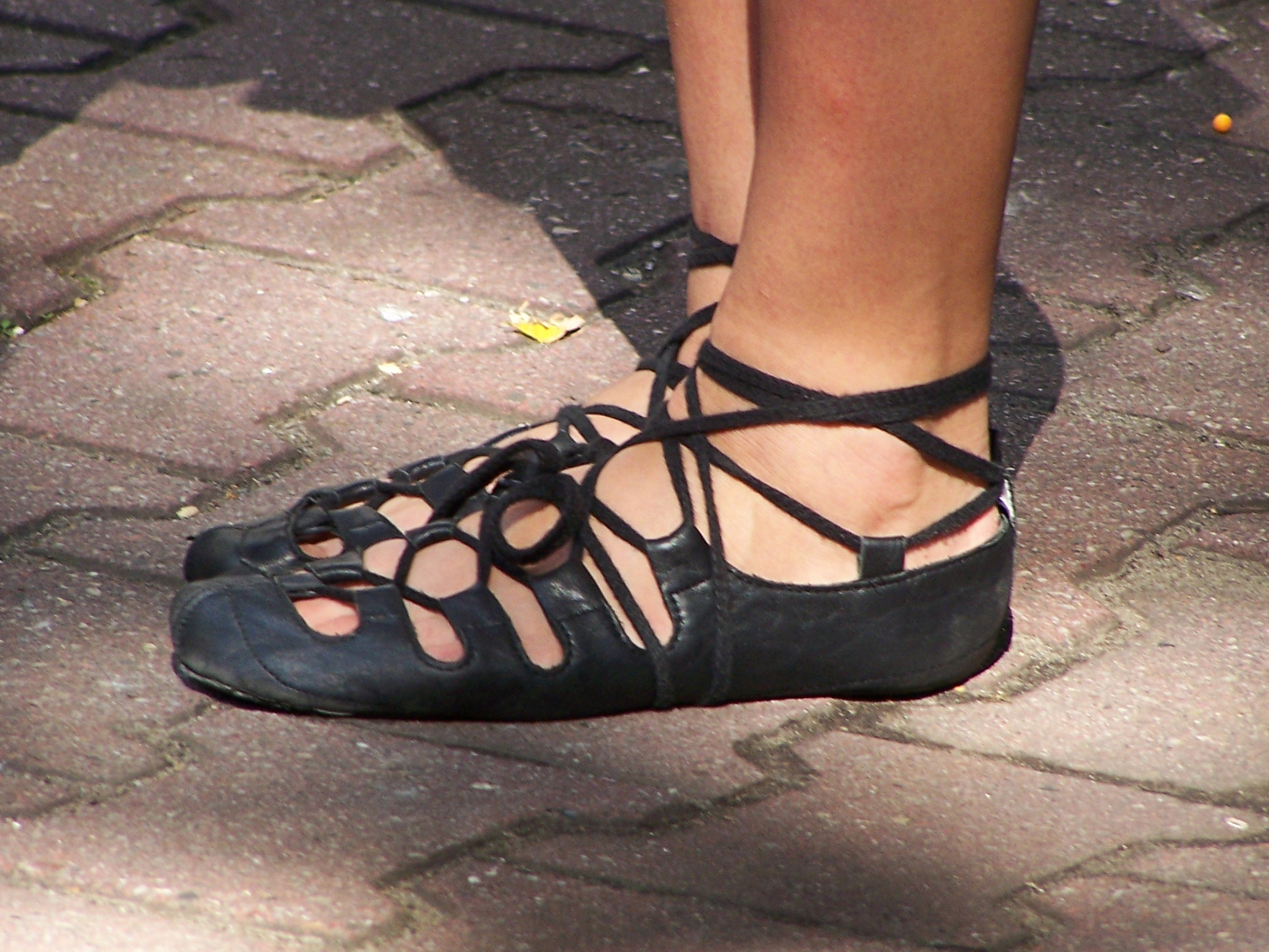 Ghillie - shoes for irish dances.